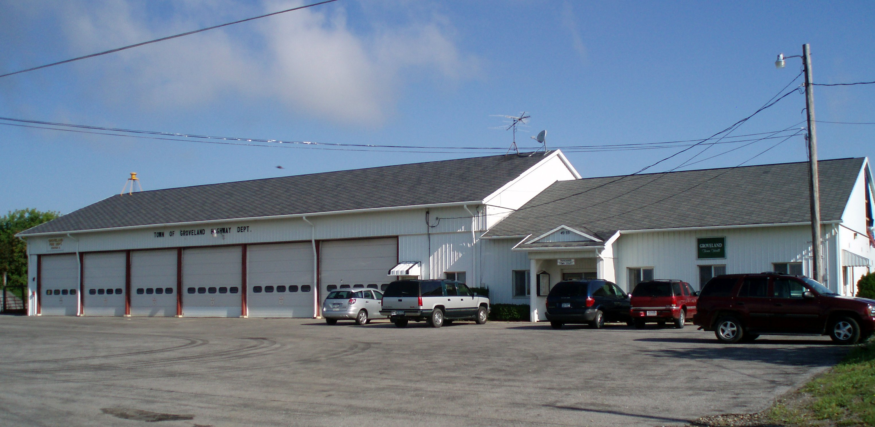 Picture of the Groveland Town Hall in the town of Groveland, NY. Includes the Town Assessor, Town Court, Town Clerk, and Groveland Volunteer Fire Department Station 2